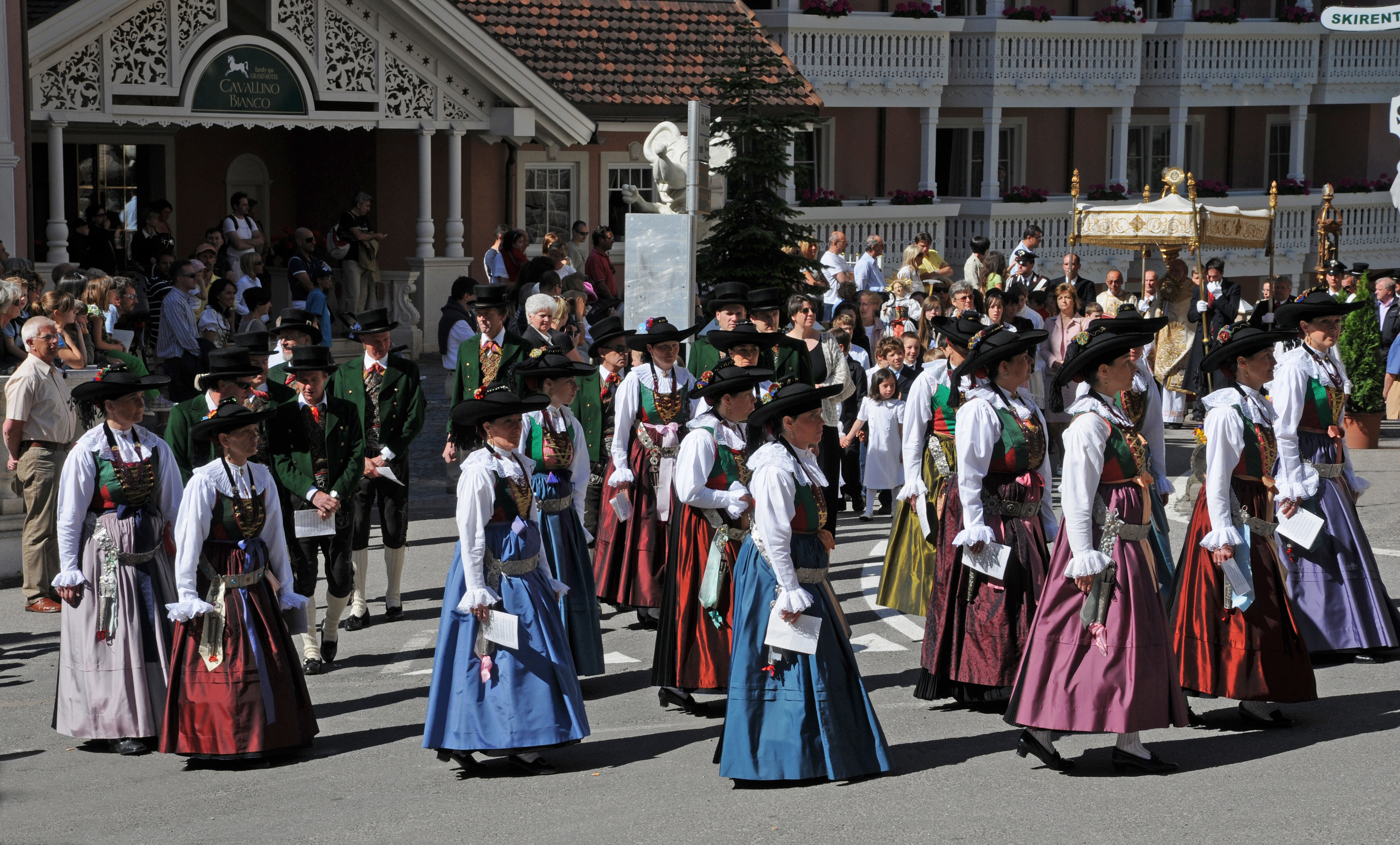 Choir of the Parish Church of Urtijëi at the procession of the Sacred Heart in Urtijei Gröden